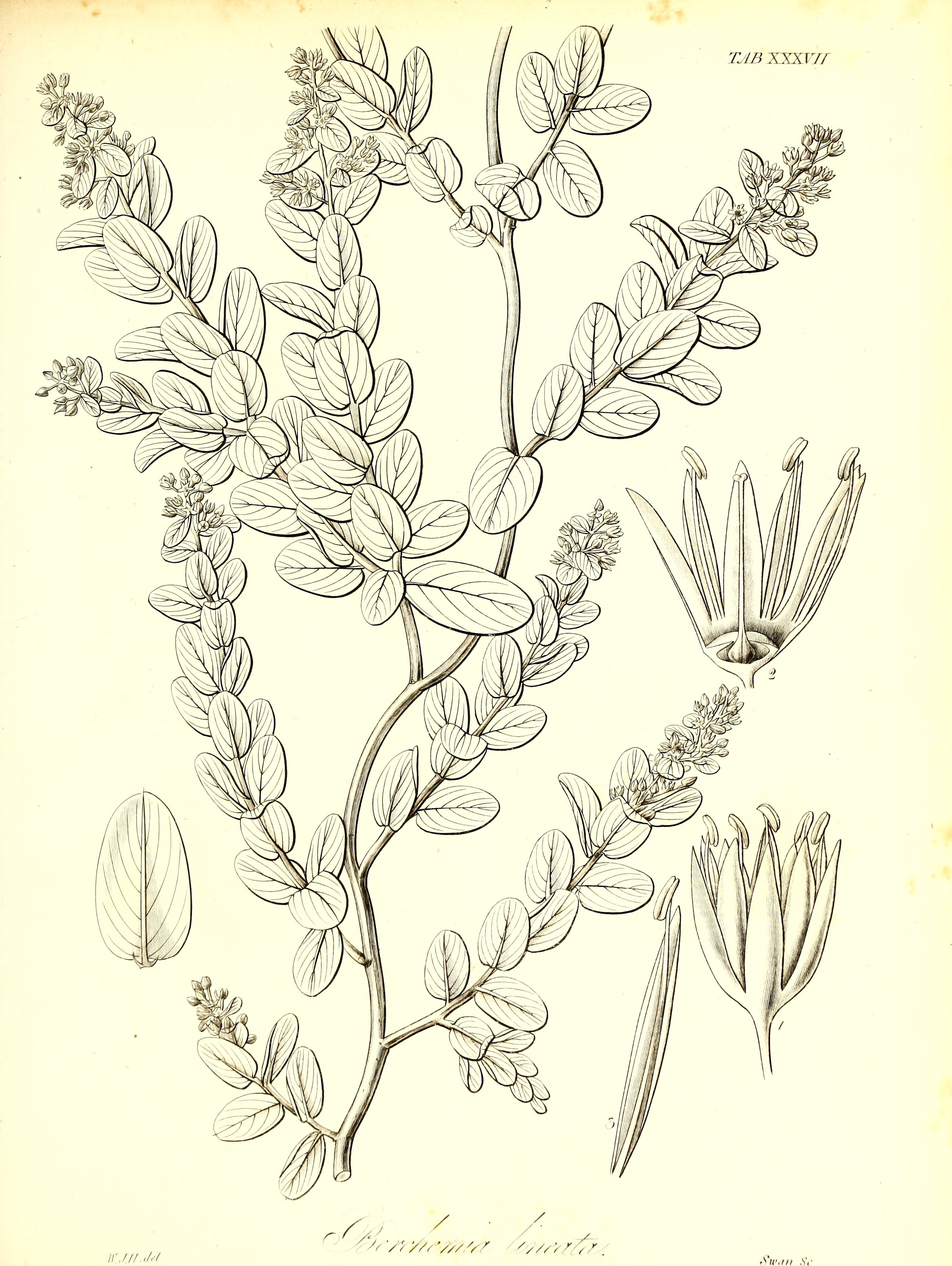 Title: The botany of Captain Beechey's voyage; comprising an acount of the plants collected by Messrs. Lay and Collie, and other officers of the expedition, during the voyage to the Pacific and Behring's Strait, performed in His Majesty's ship Blossom, under the command of Captain F. W. Beechey ... in the years 1825, 26, 27, and 28 Year: 1841 (1840s) Authors: Hooker, William Jackson, Sir, 1785-1865; Arnott, George Arnott Walker, 1799-1868, joint author; Beechey, Frederick William, 1796-1856 Subjects: Blossom (Ship); Botany; Botany; Botany Publisher: London, H. G. Bohn Text Appearing Before Image: ' Text Appearing After Image: '